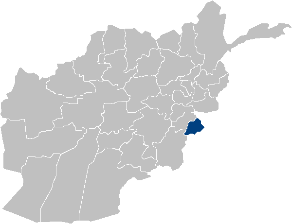 Location map for Khost Province in Afghanistan. Original map source: Image:Afghanistan_provinces_blank.png